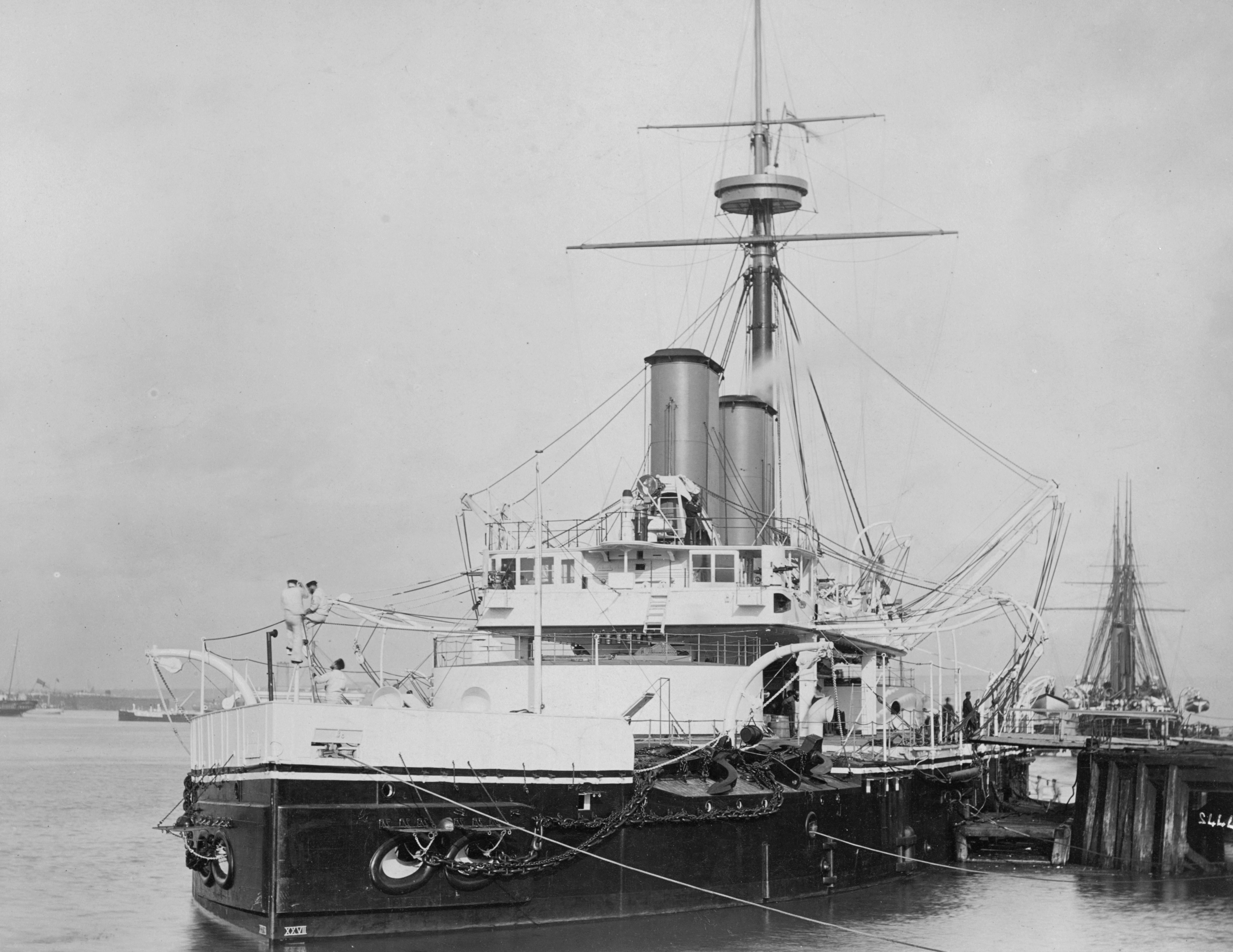 Photograph showing bow of British ironclad battleship HMS Dreadnought. Caption : "In a British port while she was fitted with Nordenfelt machine guns (visible abaft the bridge), probably after returning from the Mediterranean in 1894."